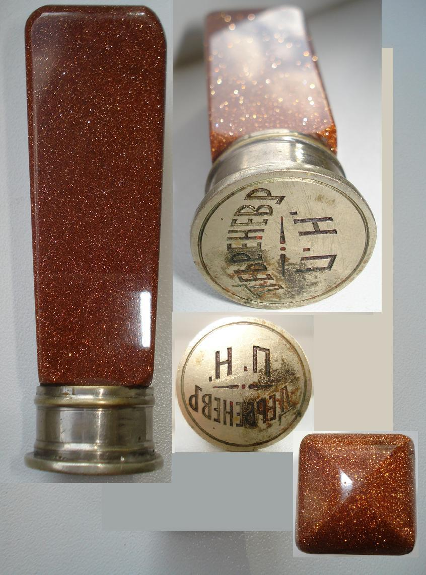 Личная печать Павла Никоноровича Дербенёва